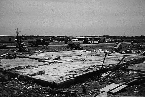 F5 damage from the May 27, 1997 Jarrell, Texas tornado.